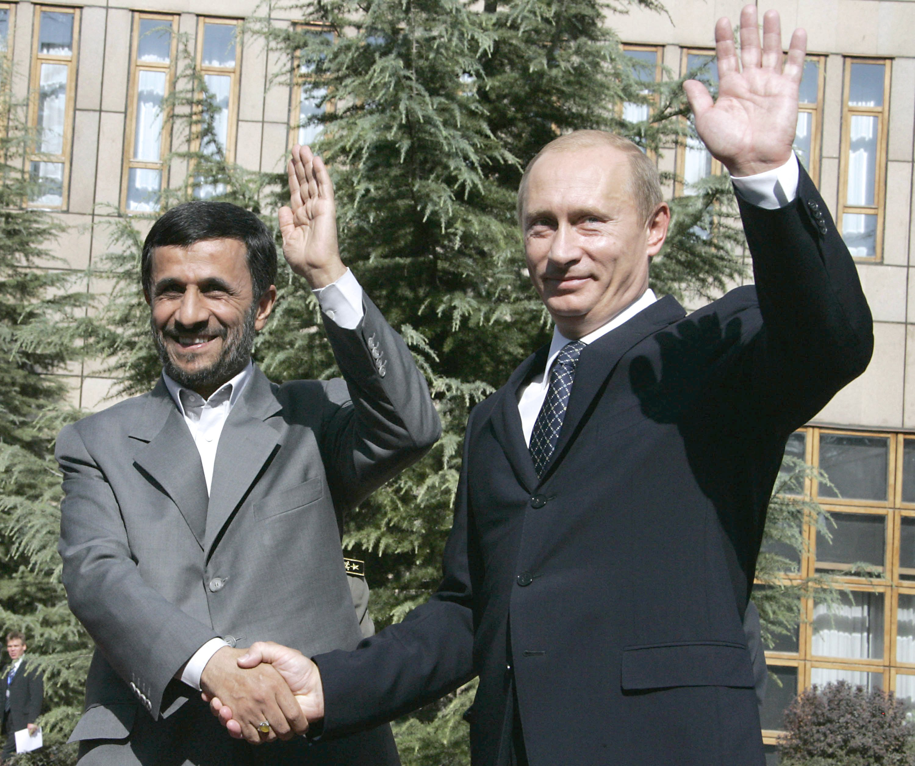 TEHRAN. Vladimir Putin with the President of Iran, Mahmoud Ahmadinejad.